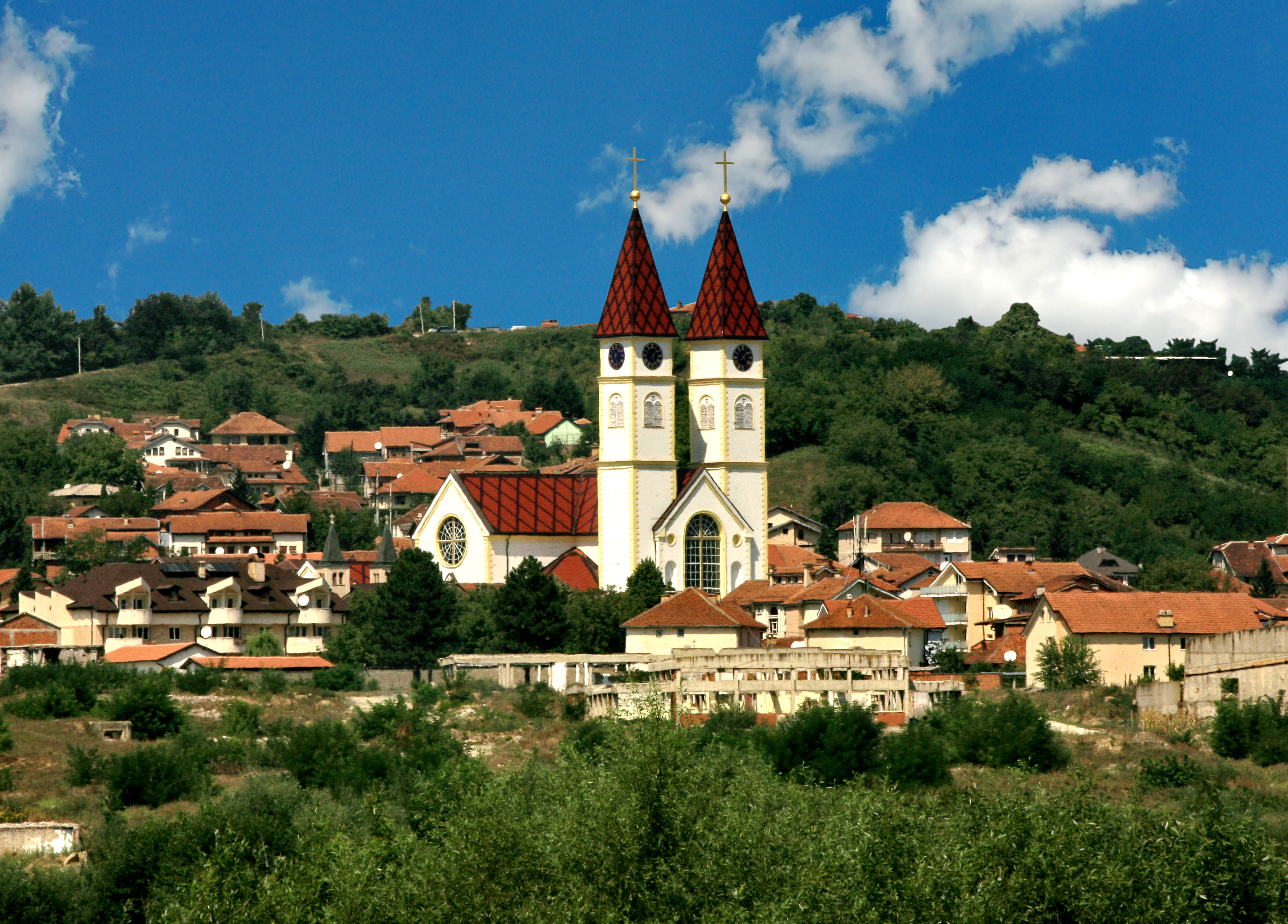 I Gjakove, Saint Paul & Saint Peter Churches